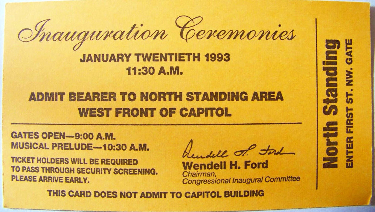 Pass to Capitol Hill standing area for First inauguration of Bill Clinton (1993).